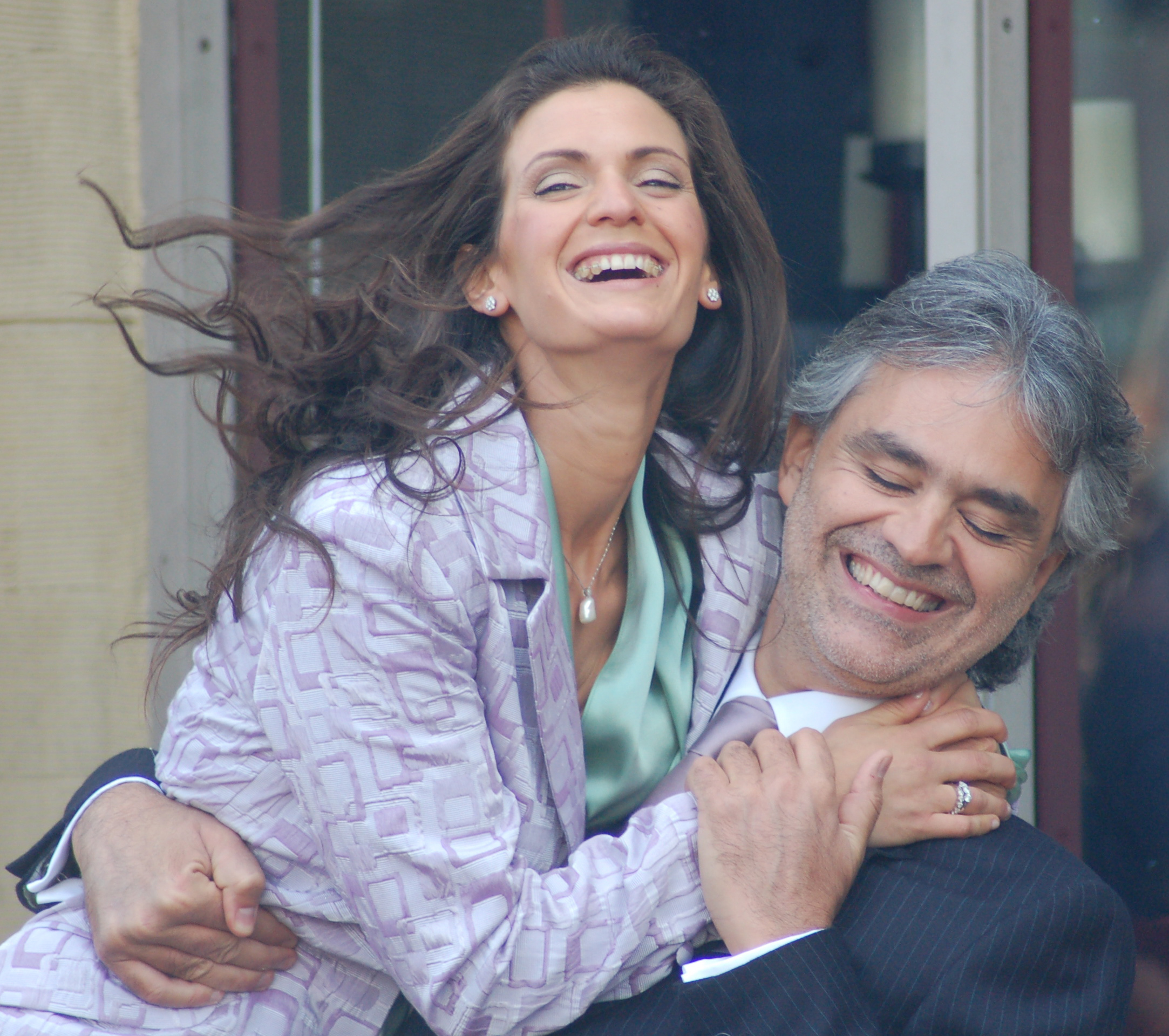 Andrea Bocelli with his future wife, Veronica Berti, at a ceremony for Bocelli to receive a star on the Hollywood Walk of Fame.